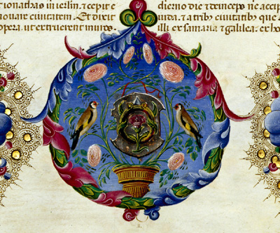 CRIVELLI, Taddeo Bible of Borso d'Este Illumination on parchment Biblioteca Estense, Modena